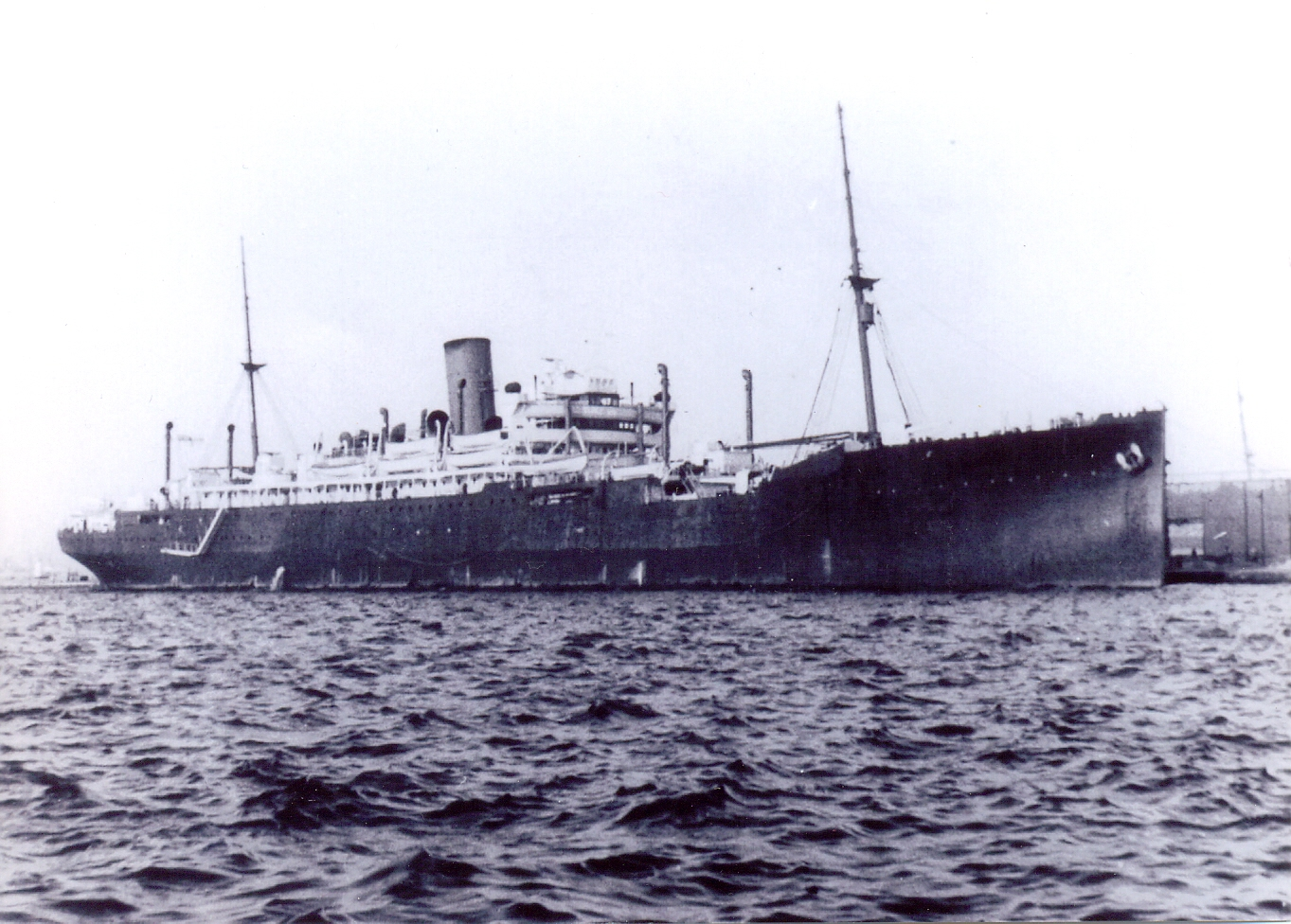 “HMS Jervis Bay at Dakar, Senegal, which has to have been taken in either January or April, 1940. You can clearly see that the ship was not painted battleship grey, as all of the painted pictures of the battle incorrectly indicate. You can also clearly see the starboard guns. S2 (on the well deck) was blown off the ship during the battle (complete with gun crew, who all perished - apart from Fred Billinge, who was on deck elsewhere at the moment the salvo hit.) Photo by JF Aylard, survivor.”